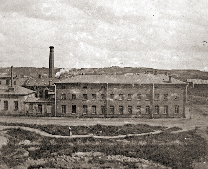 Viipurin konepaja (Wiborgs Mekaniska Verkstad) in Viipuri. Photo taken in the 1890s by an unknown photographer.